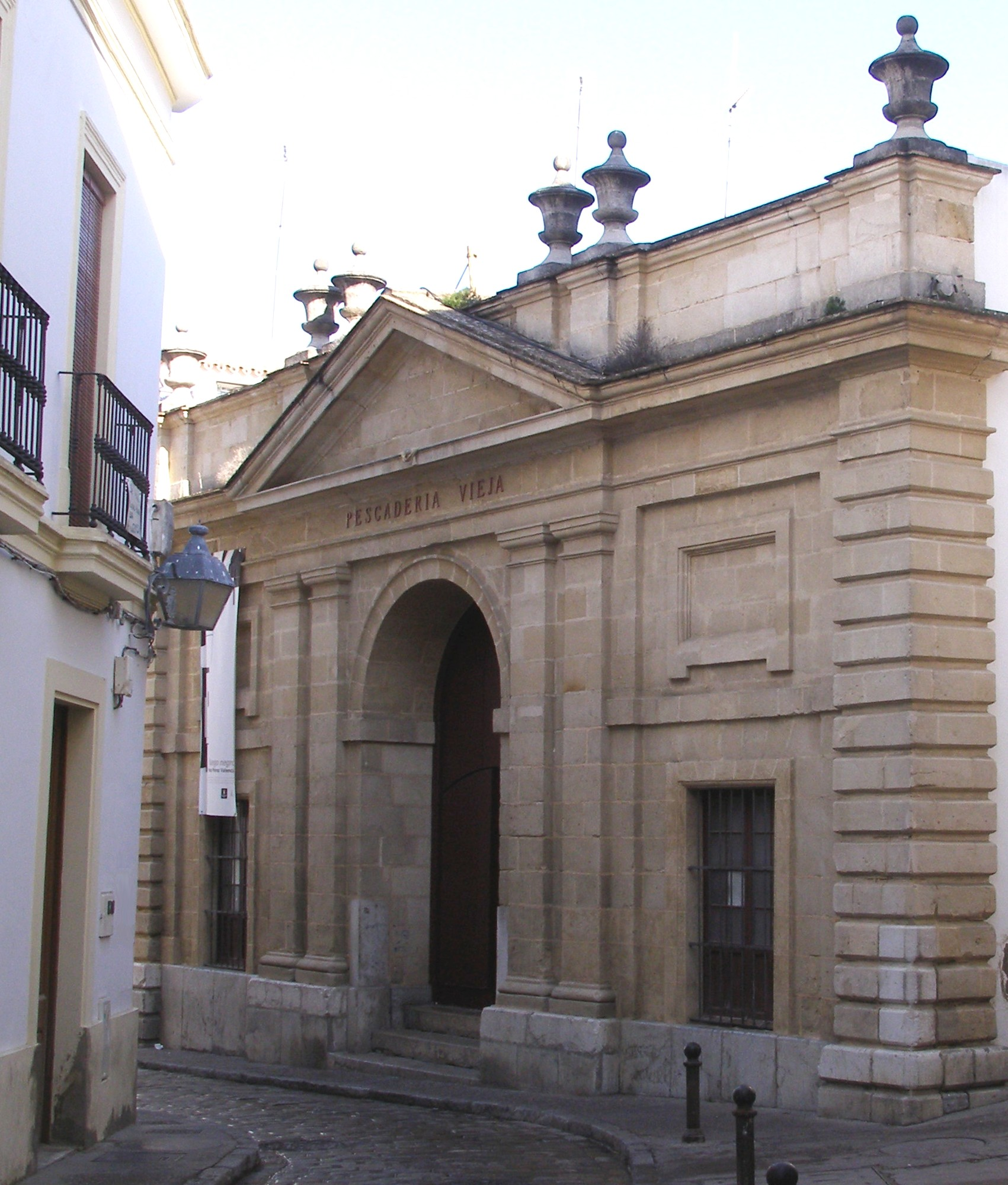 Old Fish Market Building. Cultural Centre. Jerez de la Frontera